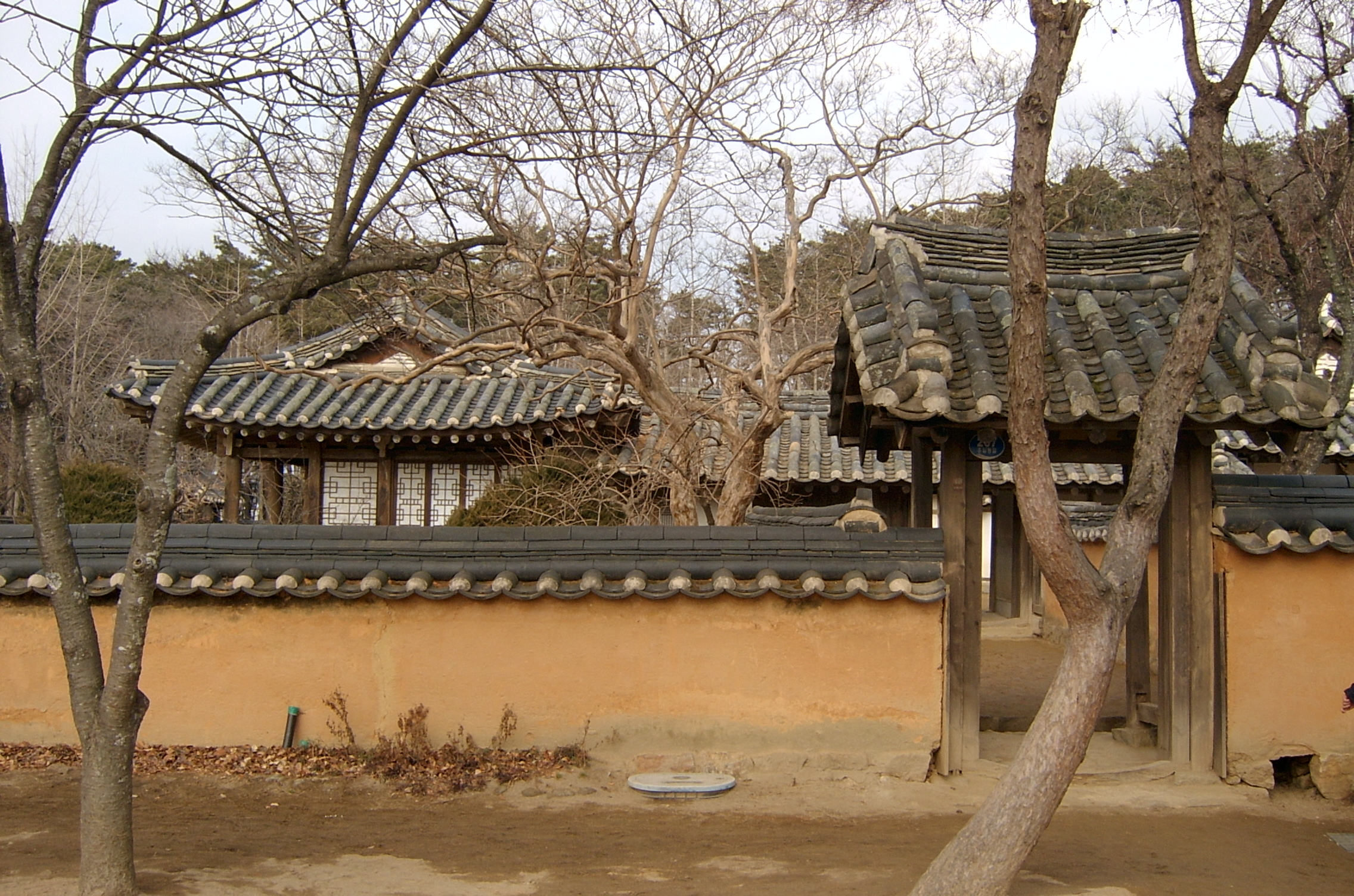 The picture was taken by Klaus314.